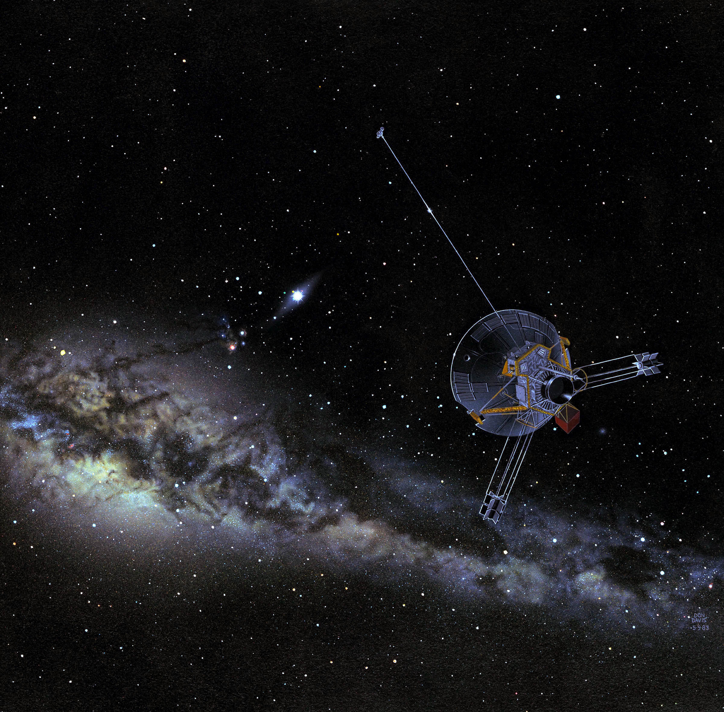 Pioneer 10 on its flight in the outer solar system.